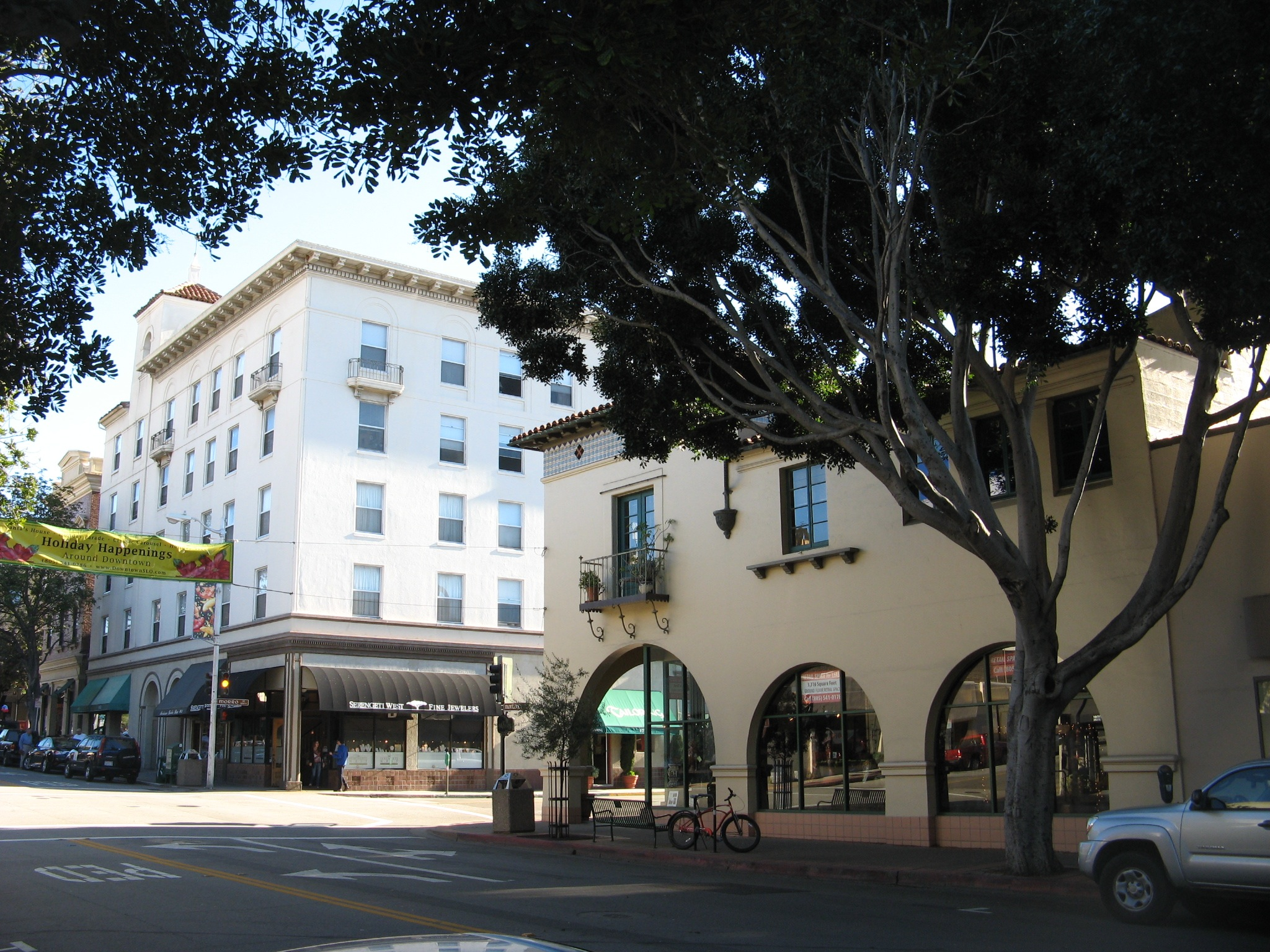 Downtown SLO